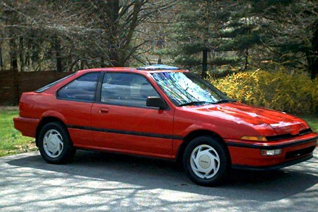 1989 Acura Integra, well-maintained. Own work April 5th, 2007 Amy Crawford